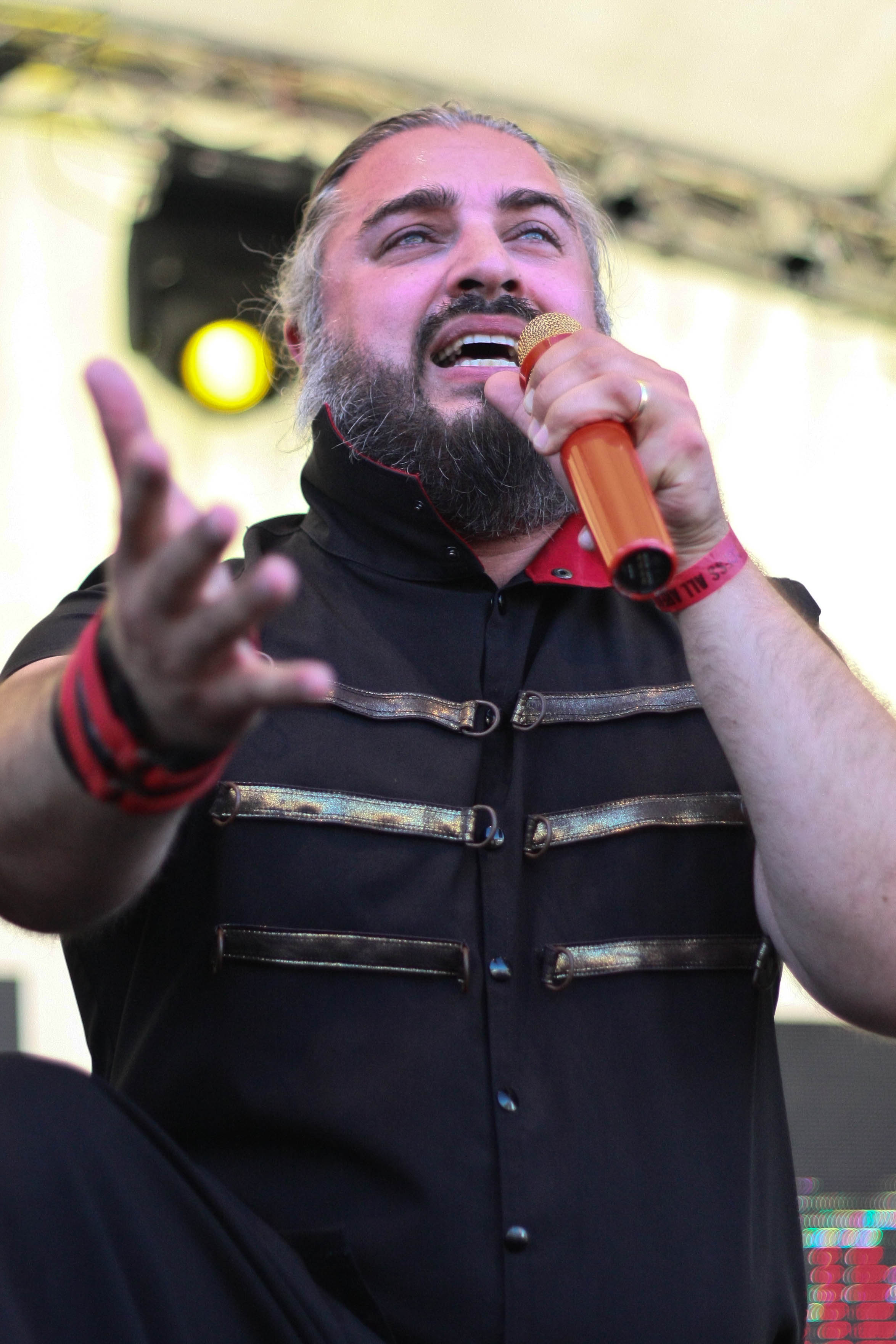 Russkaja at Sonnenrot Festival (Eching/Germany)